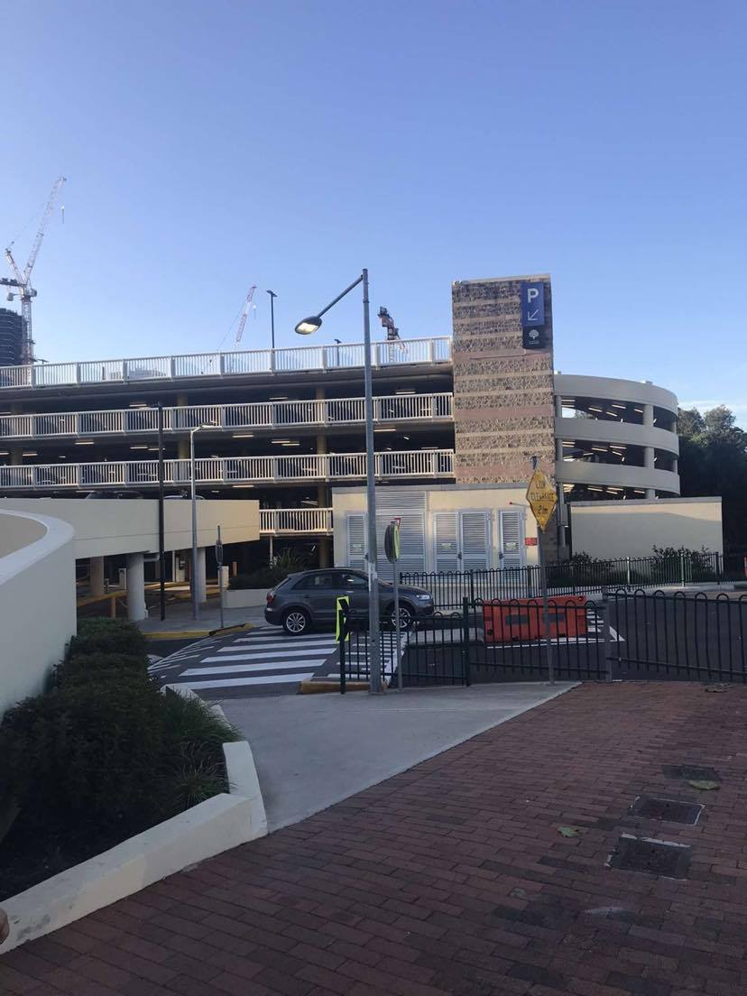 A photo of Castle Towers Shopping Centre, the main shopping centre in Castle Hill, Sydney NSW including the carpark